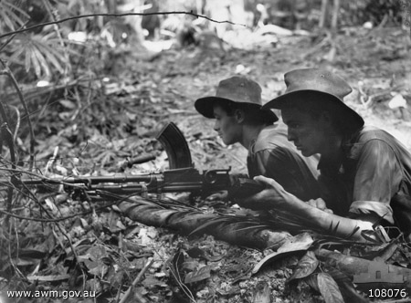 AWM Caption: Borneo: Tarakan. PRIVATE D. E. HAILEY (LEFT) AND T. M. CONWAY (RIGHT) MEMBERS OF 2/23RD INFANTRY BATTALION IN THEIR BREN GUN PIT ON THE FORWARD SLOPE OF B COMPANY POSITION DURING THE ATTACK ON THE JAPANESE HELD FREDA FEATURE BY 26TH INFANTRY BRIGADE.